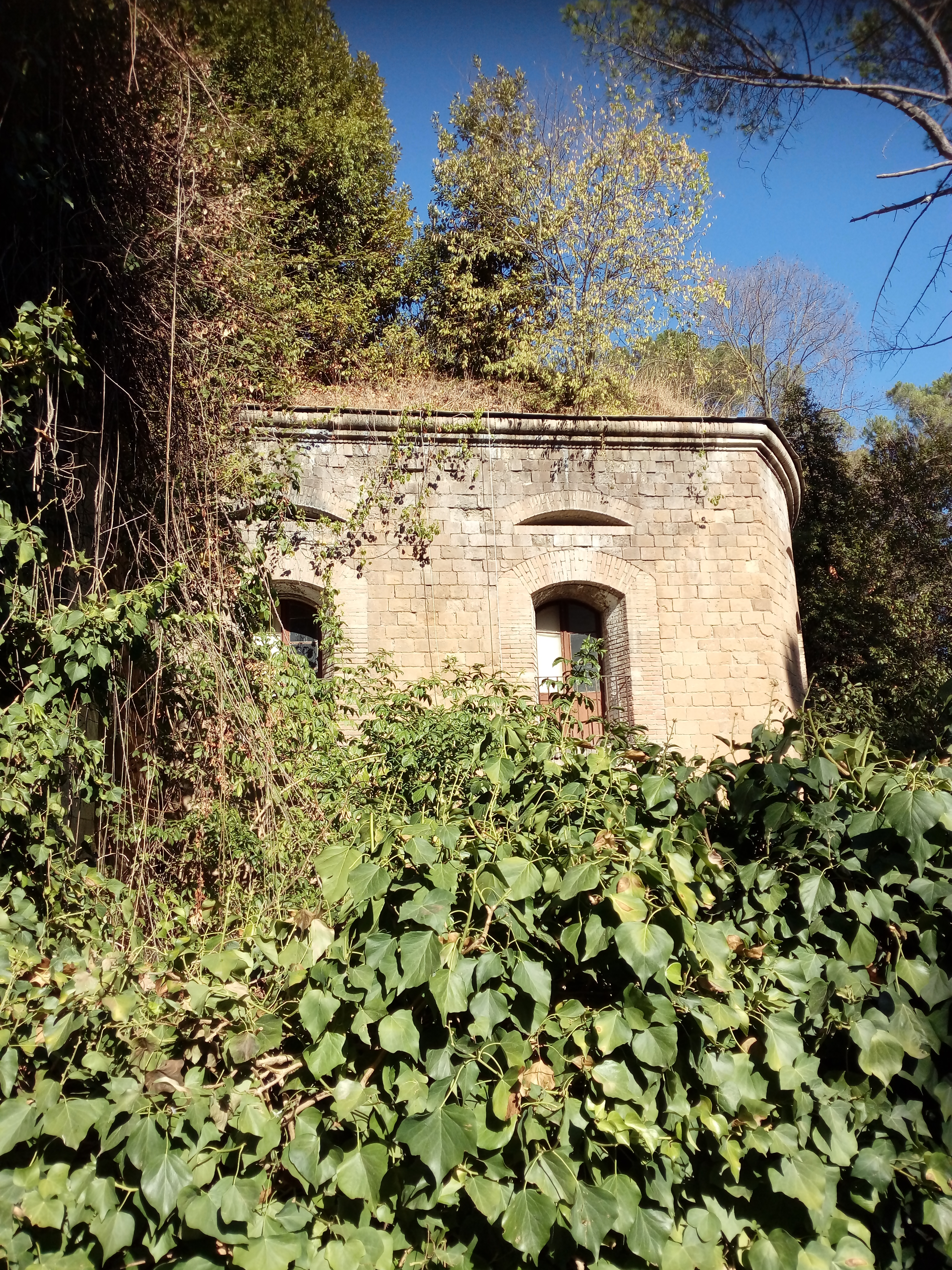 Forte Antenne, a 1891 military fort in Rome. External